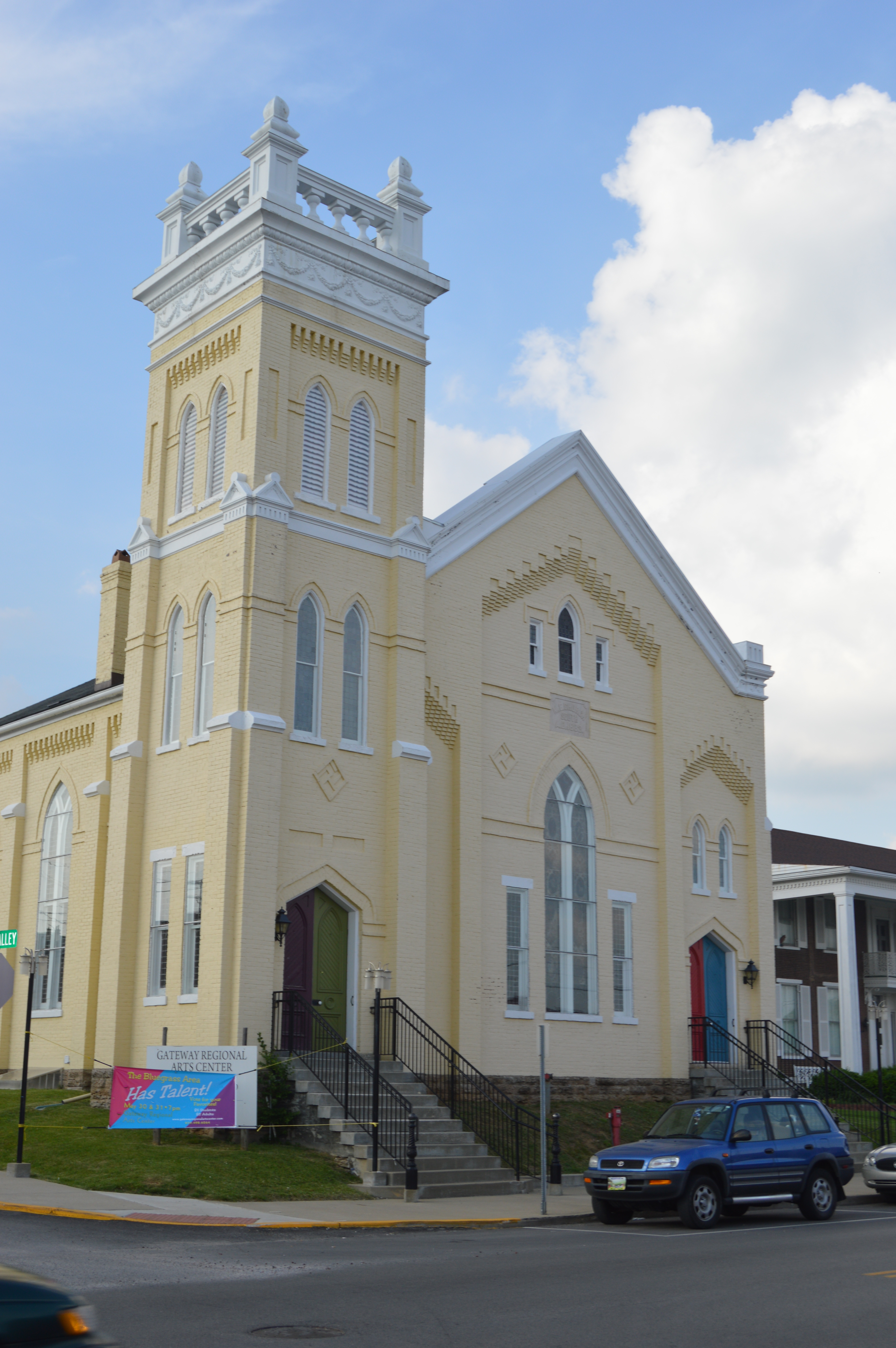 Front of the former Mount Sterling United Methodist Church (now an arts center), located on Main Street (U.S. Route 60) at Wilson Street in Mount Sterling, Kentucky, United States. Built in 1883, it is listed on the National Register of Historic Places, and it is part of a Register-listed historic district, the Mount Sterling Commercial District.